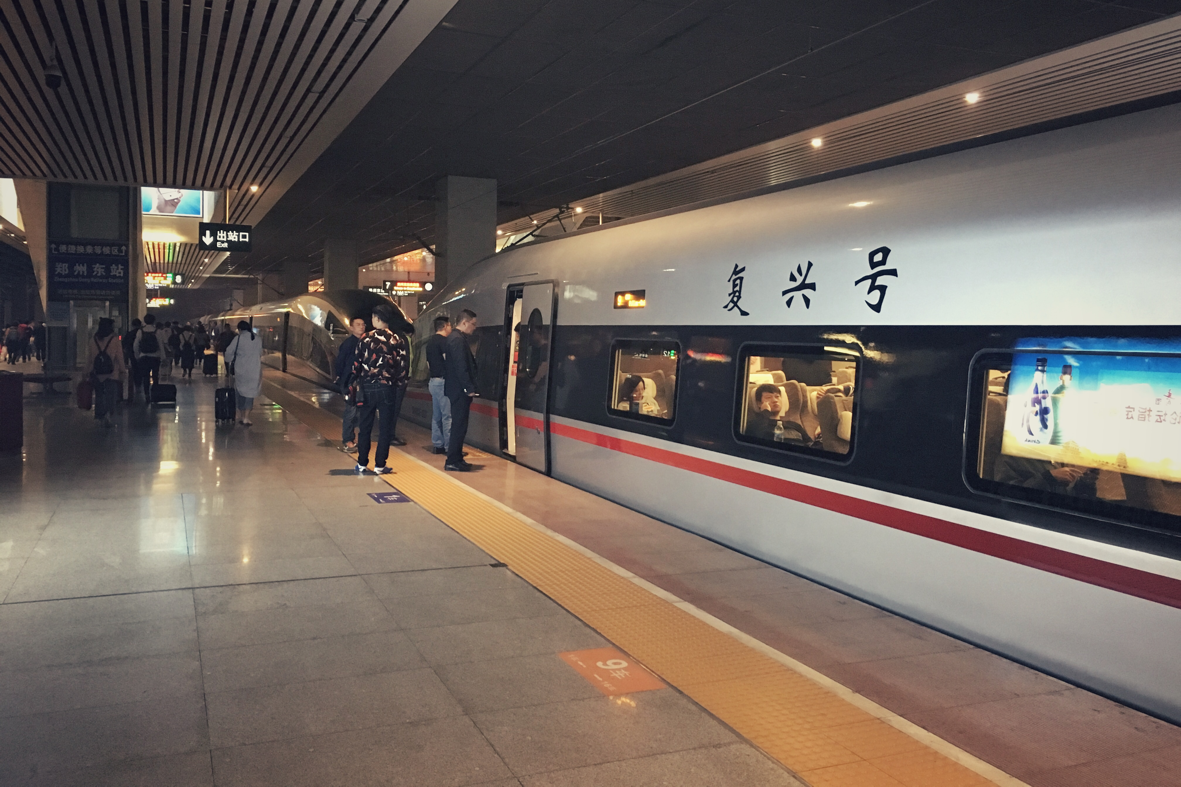 Fuxing Hao CR400AF on G80 (Futian-Beijing West) at Zhengzhou East railway station